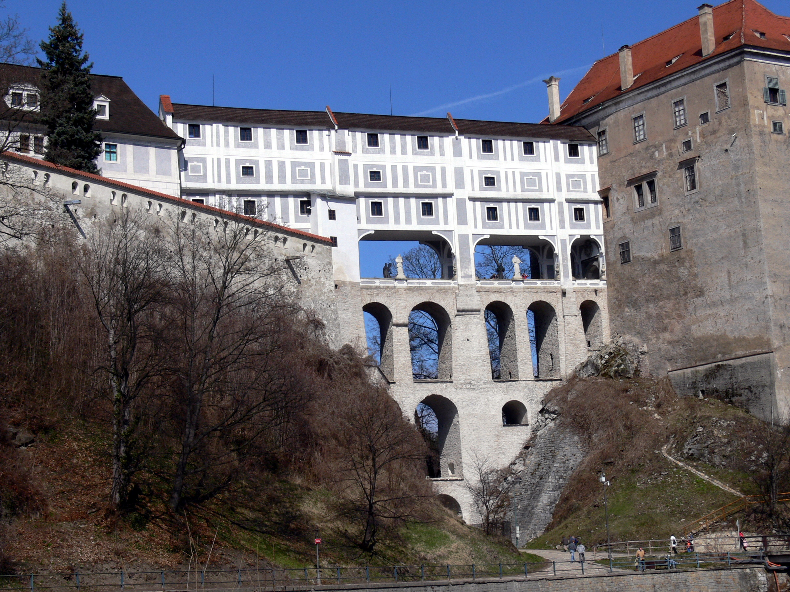 Cloak bridge ( 1777 ) crossing the ditch of the upper castle in Český Krumlov.